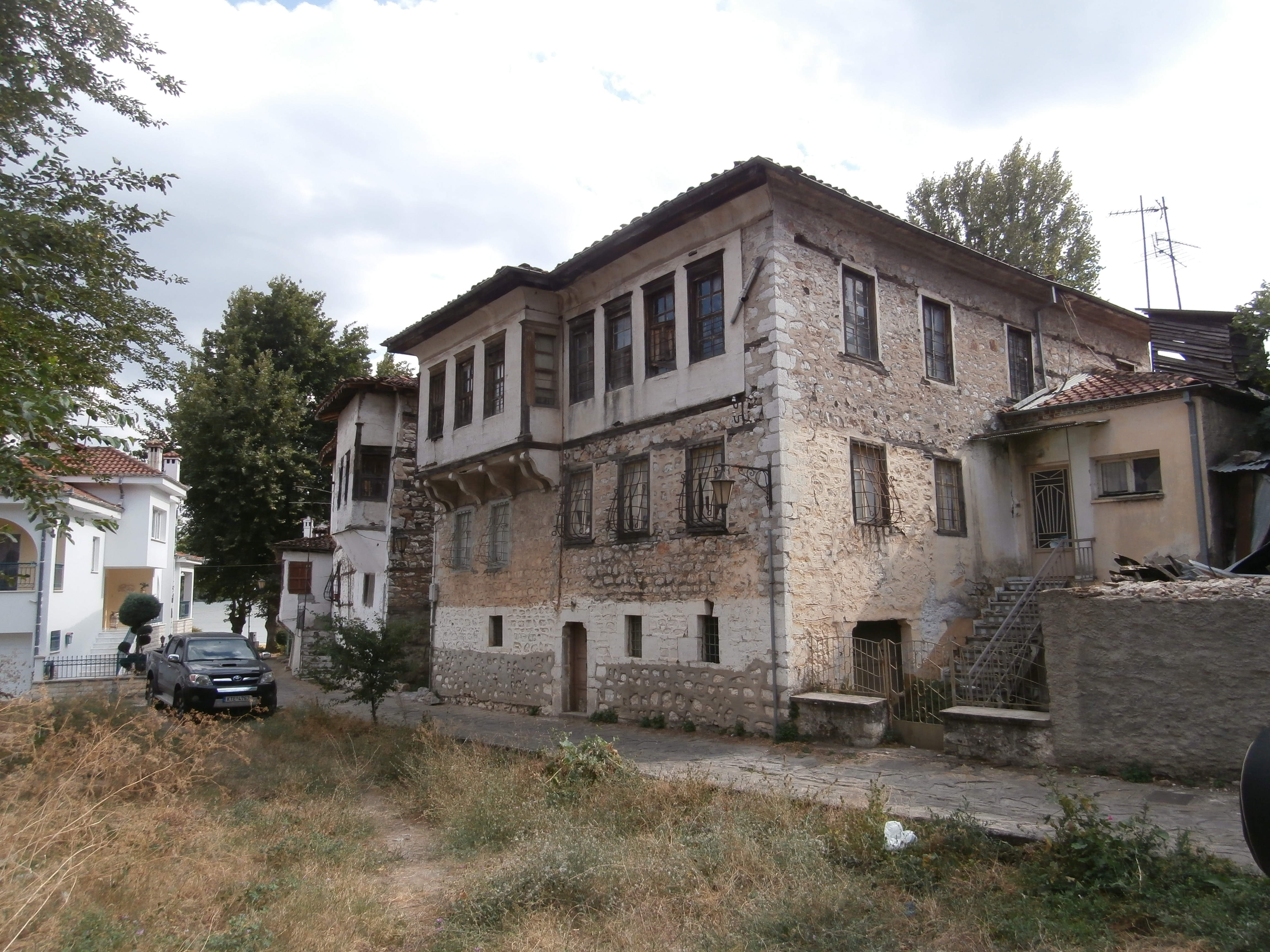 A mansion in Kastoria